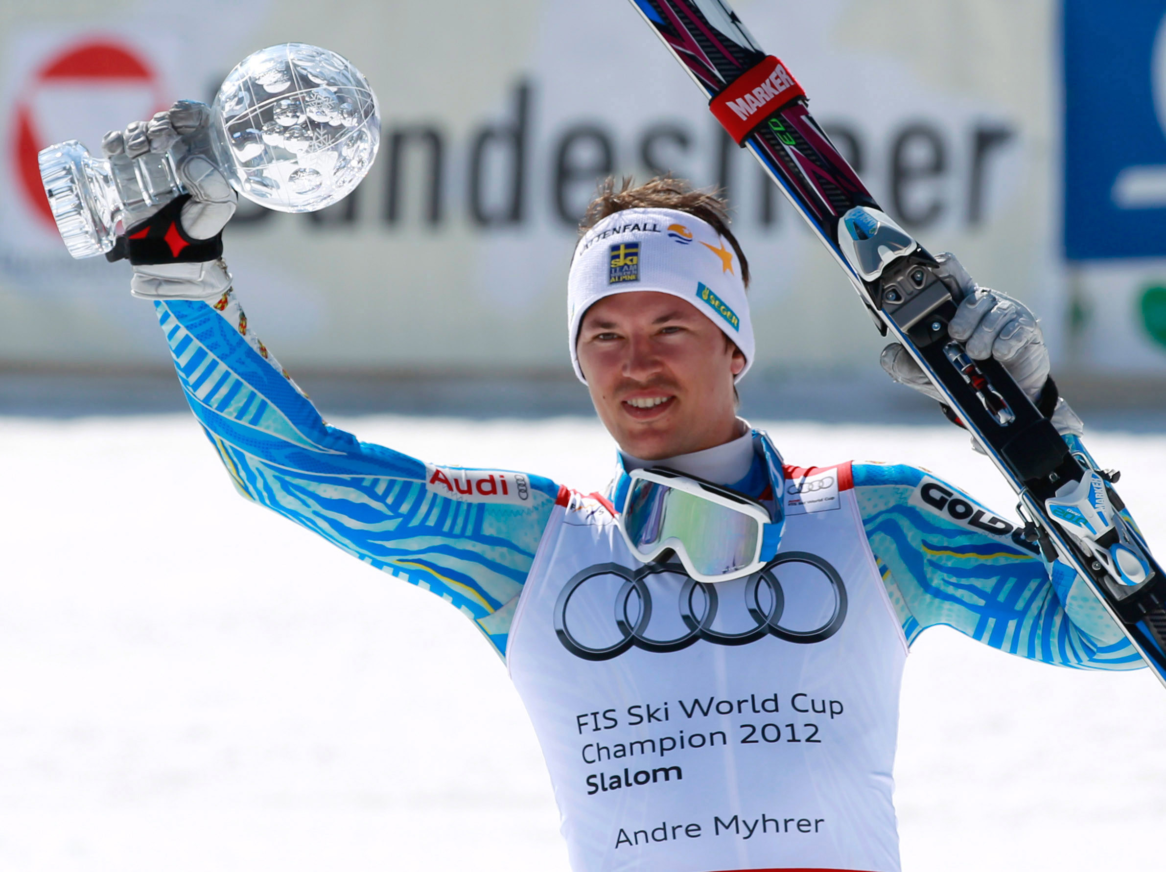 Swedish alpine skier André Myhrer recives the the crystal globe for winning the 2011/12 FIS Slalom World Cup in Schladming, Austria.